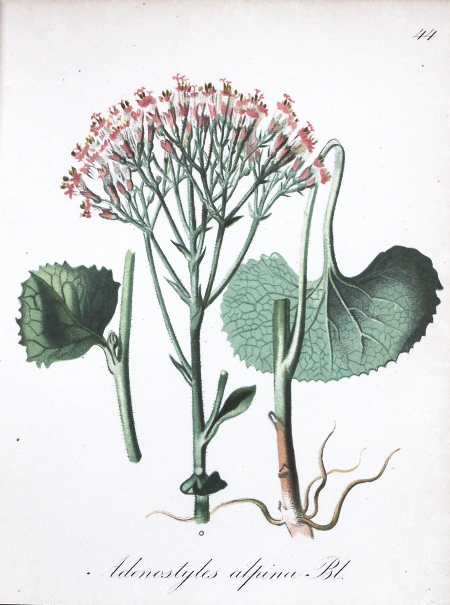 // s/s ;/ f. J /////.; f////// //'/ • SJ